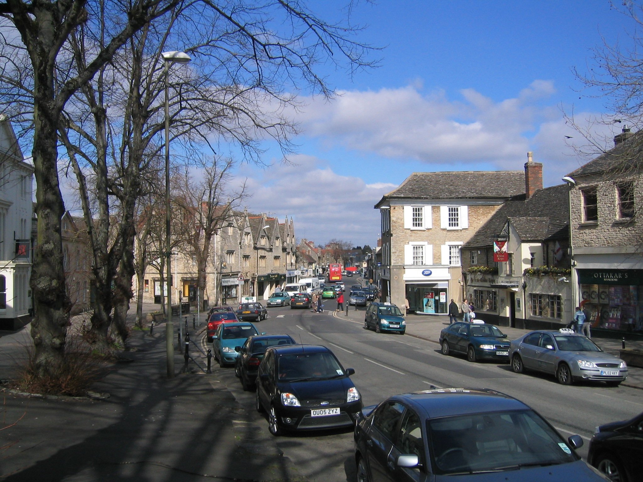 High Street in Witney, Oxfordshire, UK. Photo taken by Alan Ford 2006-03-19.